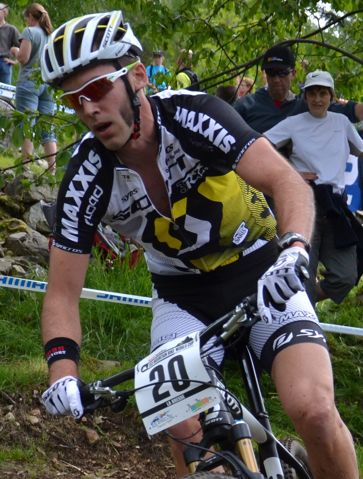 Geoff Kabush